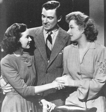 Teresa Wright with Walter Pidgeon and Greer Garson in a publicity still for the American film Mrs. Miniver (1942). Garson is wearing a costume designed by costume designer Robert Kalloch.